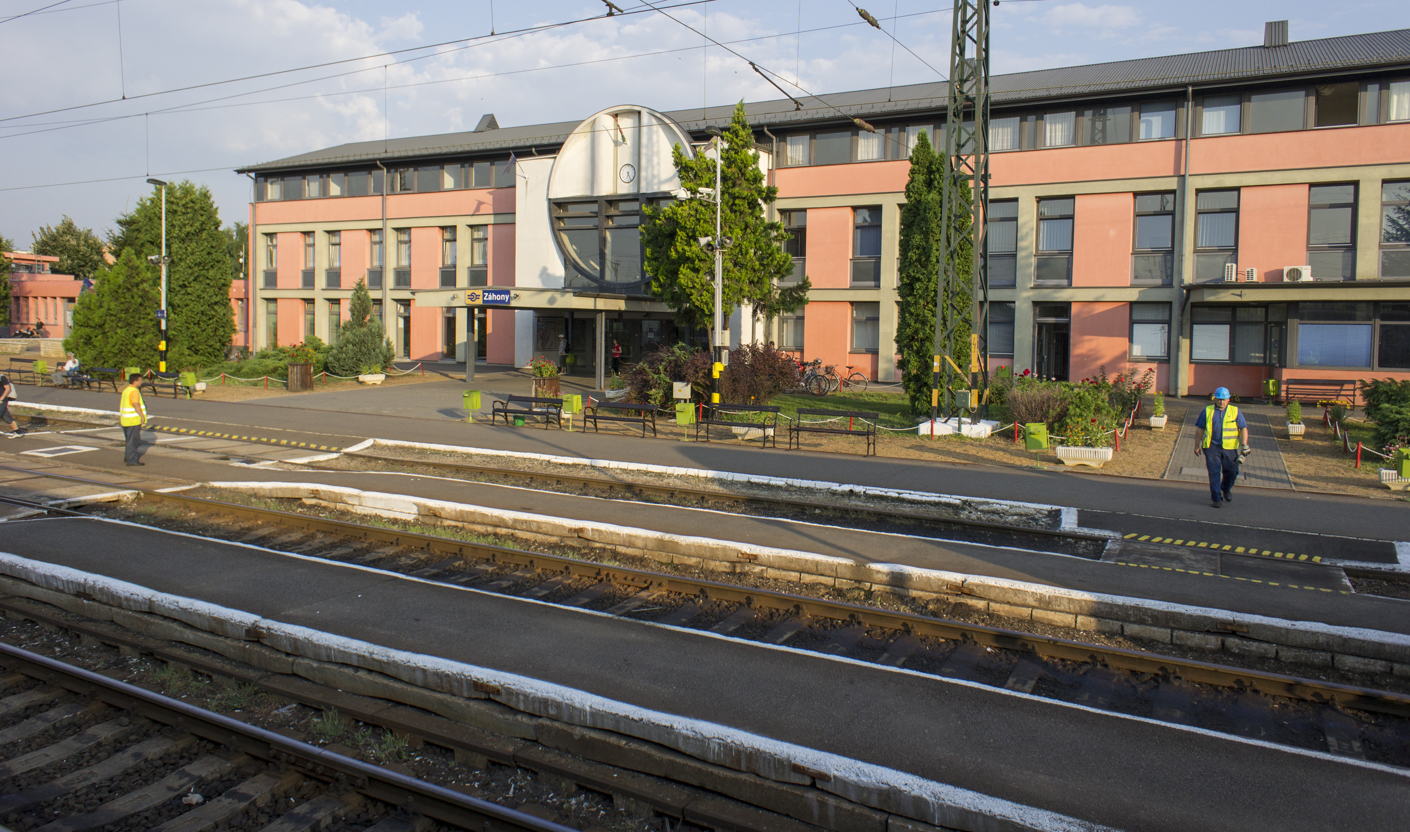 Zahony railway station.